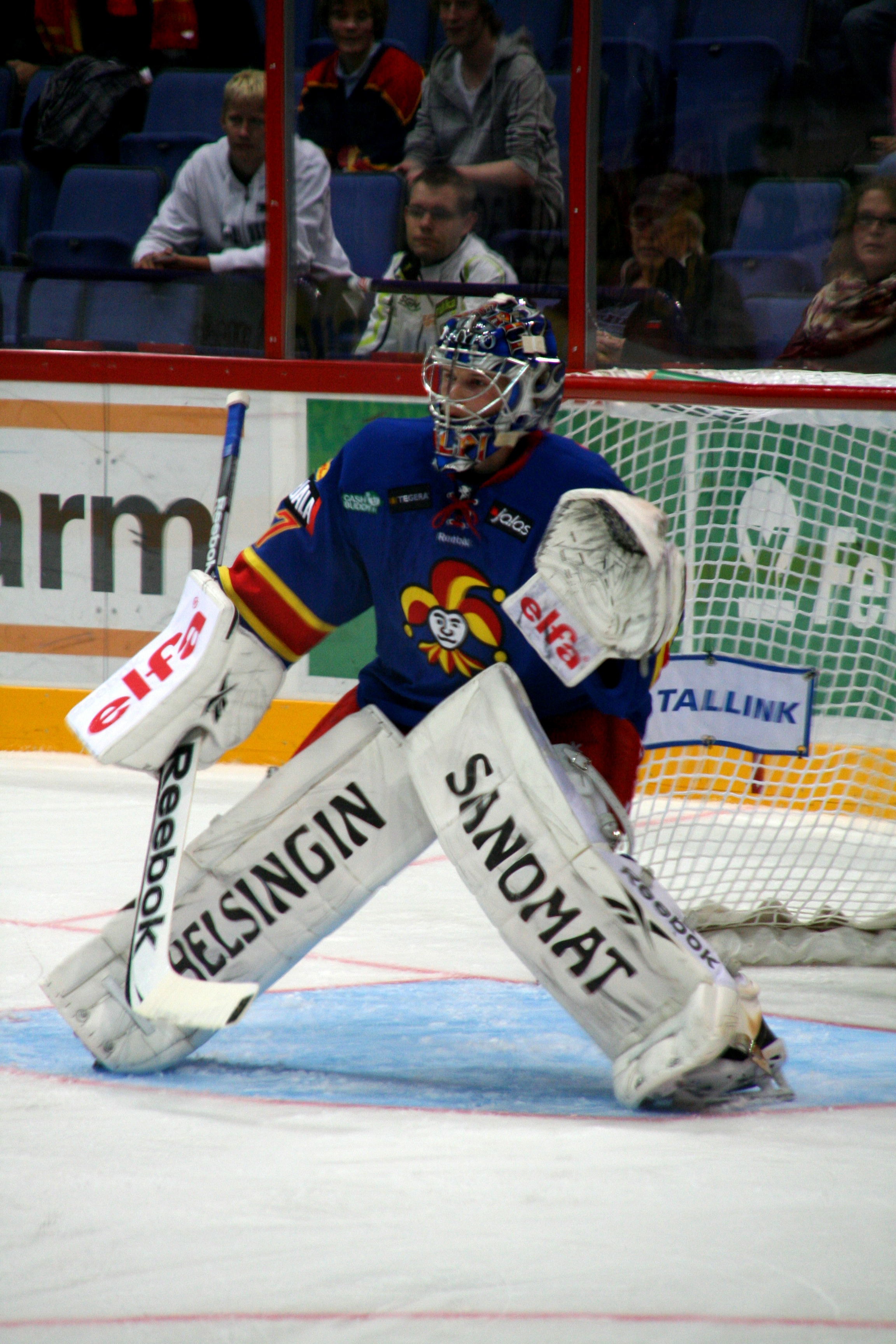 Ice Hockey Team Helsingin Jokerit Goaltender #37 Eero Kilpeläinen.